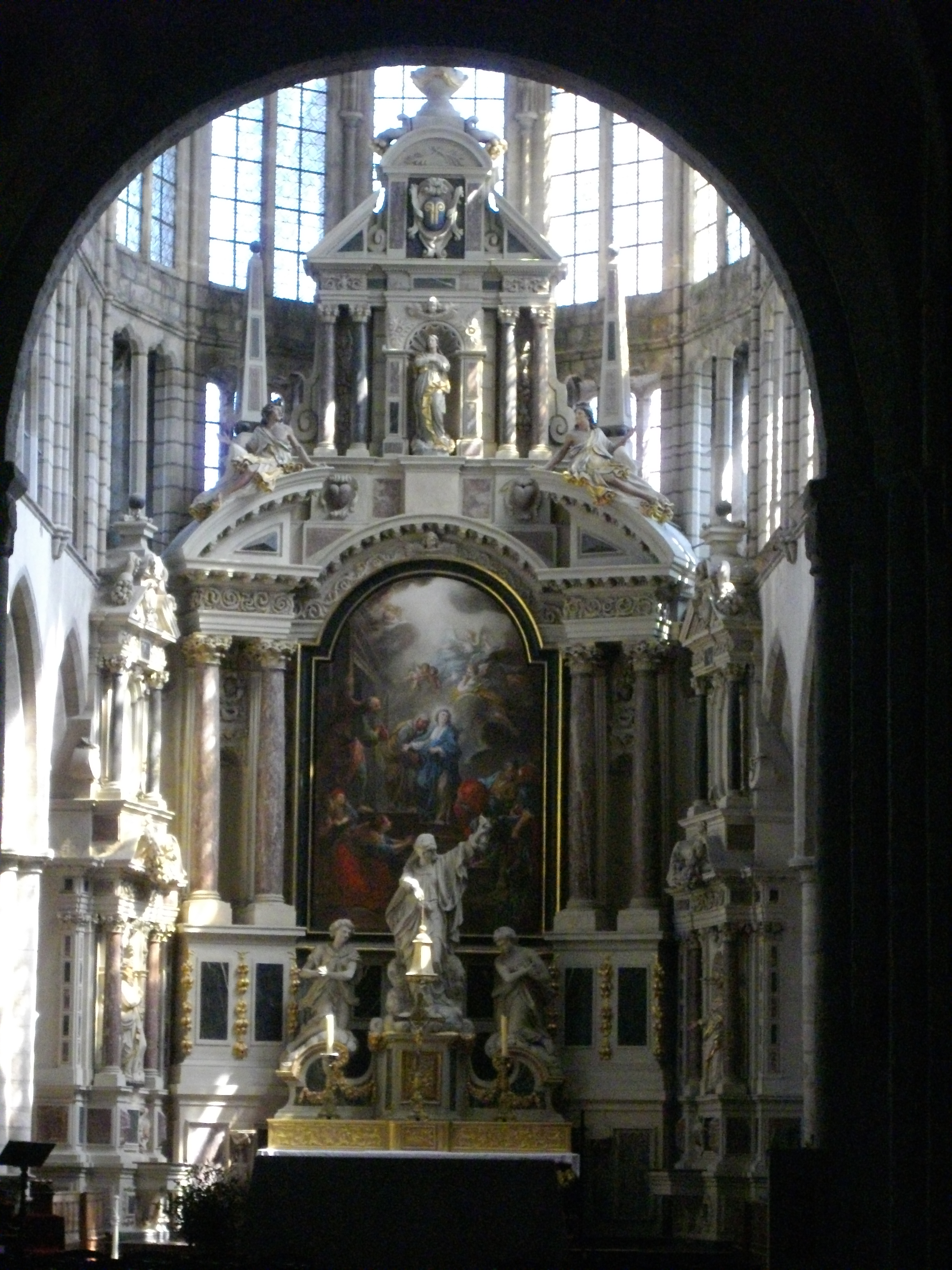 Main altar of Holy Salvator church of Redon (Ille-et-Vilaine, France) .